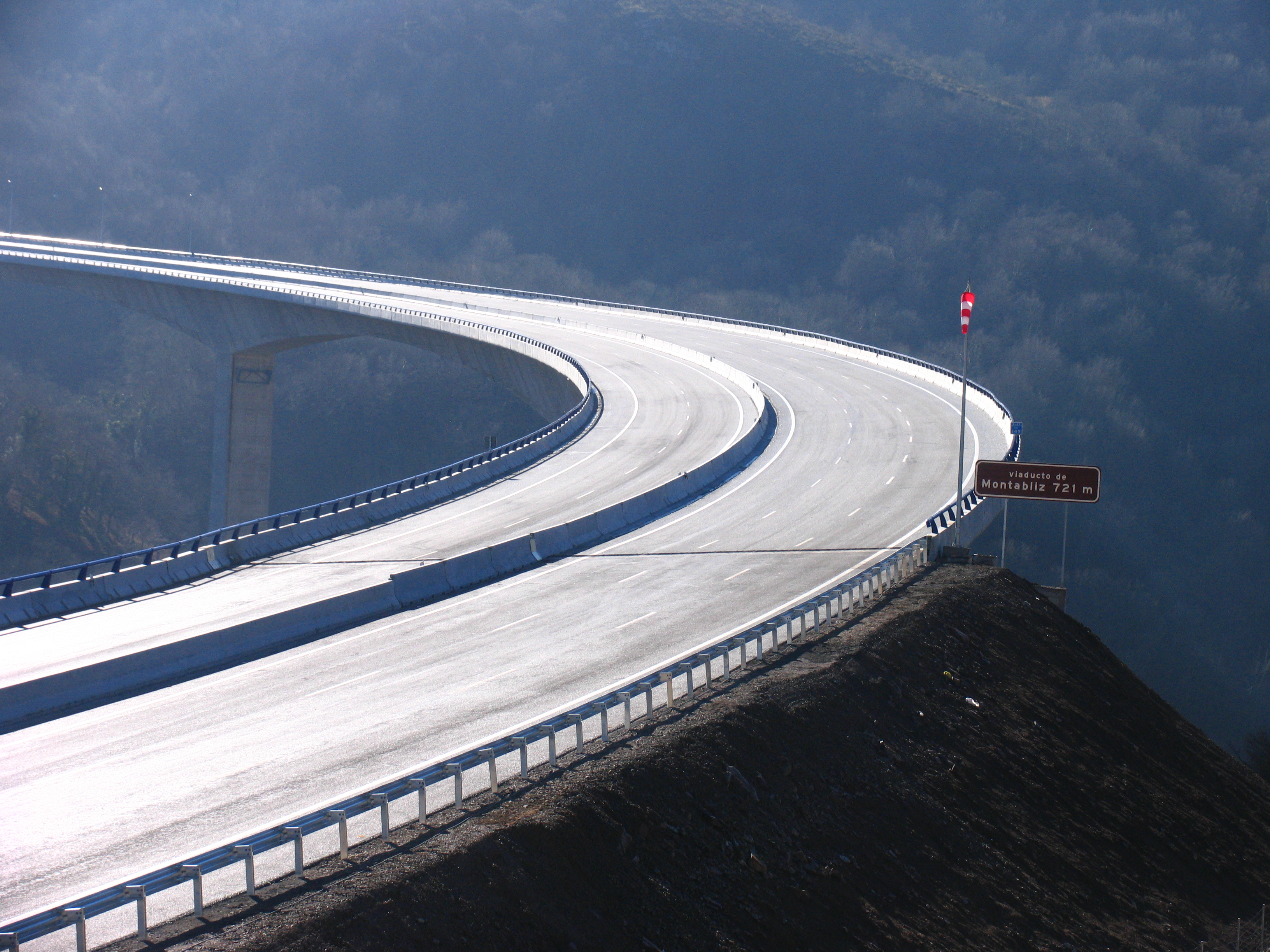 The Montabliz Viaduct in Cantabria, Spain, moments before its inauguration.